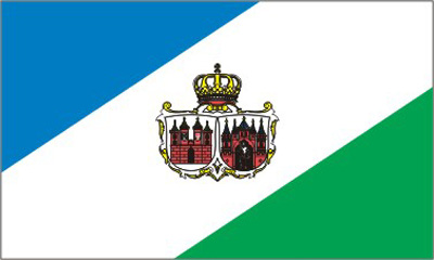 flag of the city of Brandenburg an der Havel